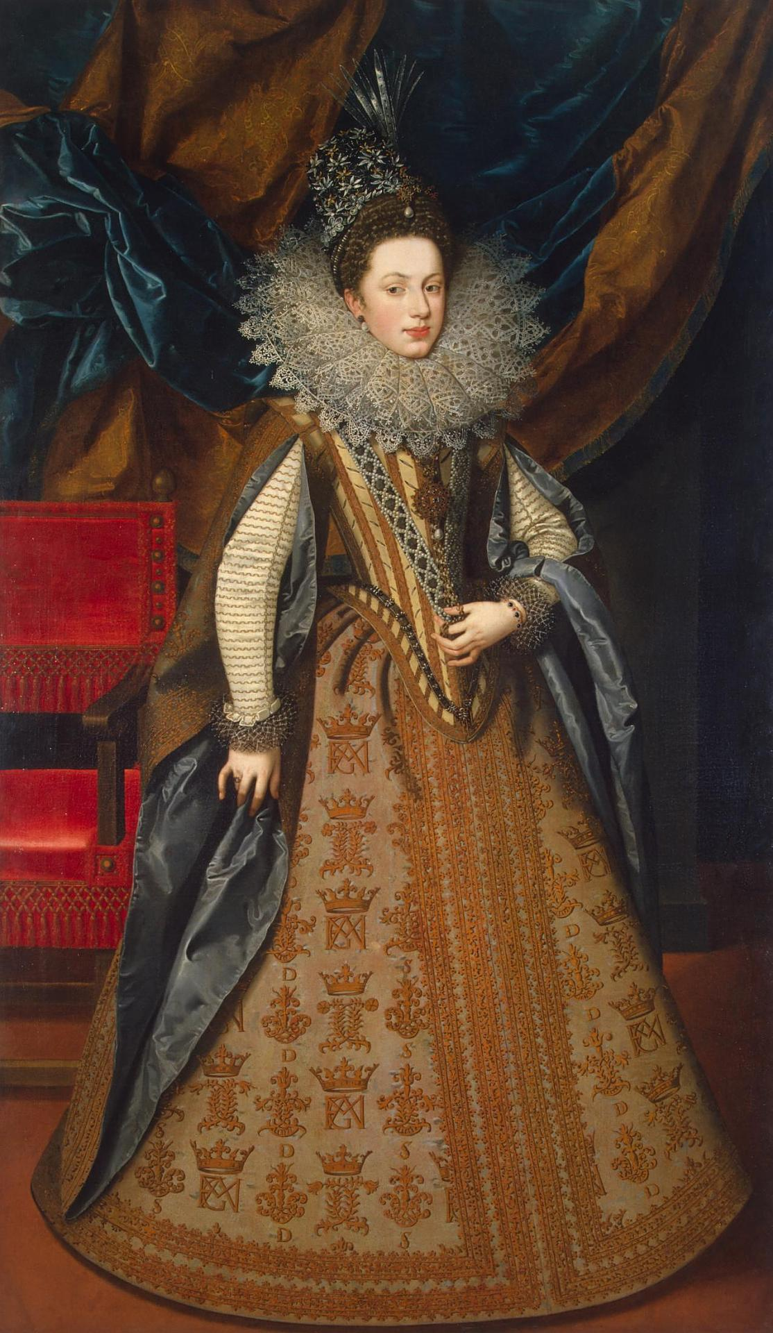 Marguerite of Savoy is depicted in her wedding dress with embroidery of the ducal crown and the monogram "FGMA" (Francesco Gonzaga, Margaret).